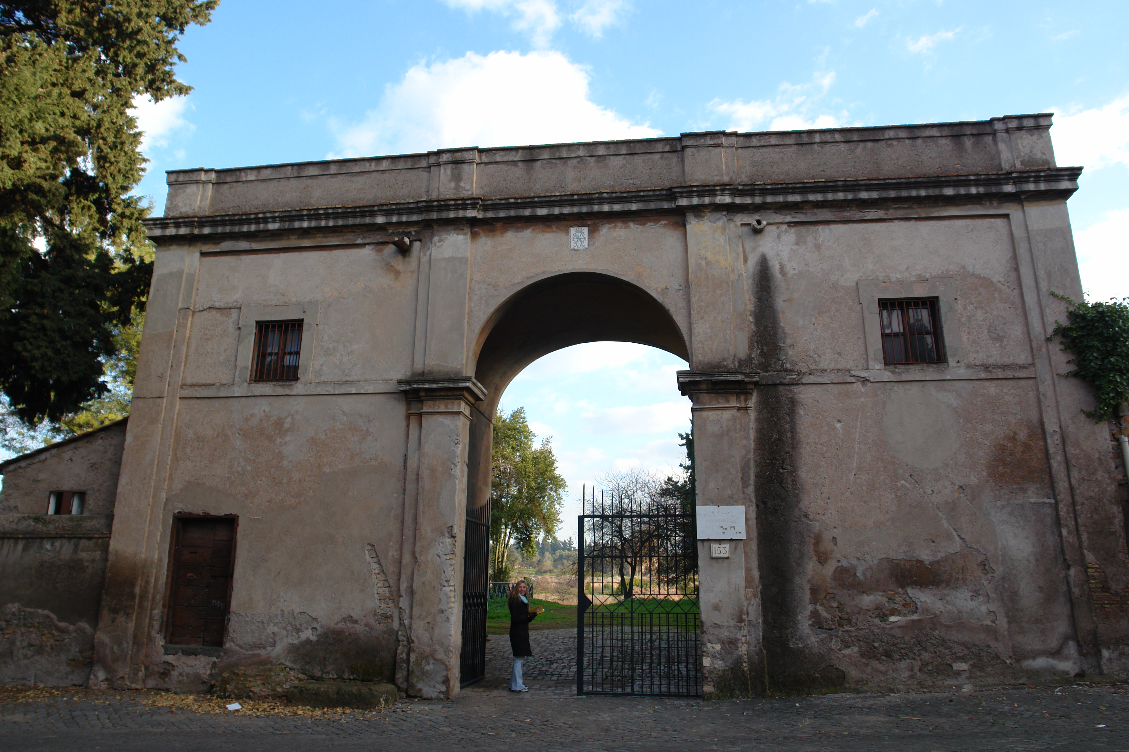 Entrance to Circus of Maxentius